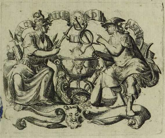 Pieter van der Aa's mark